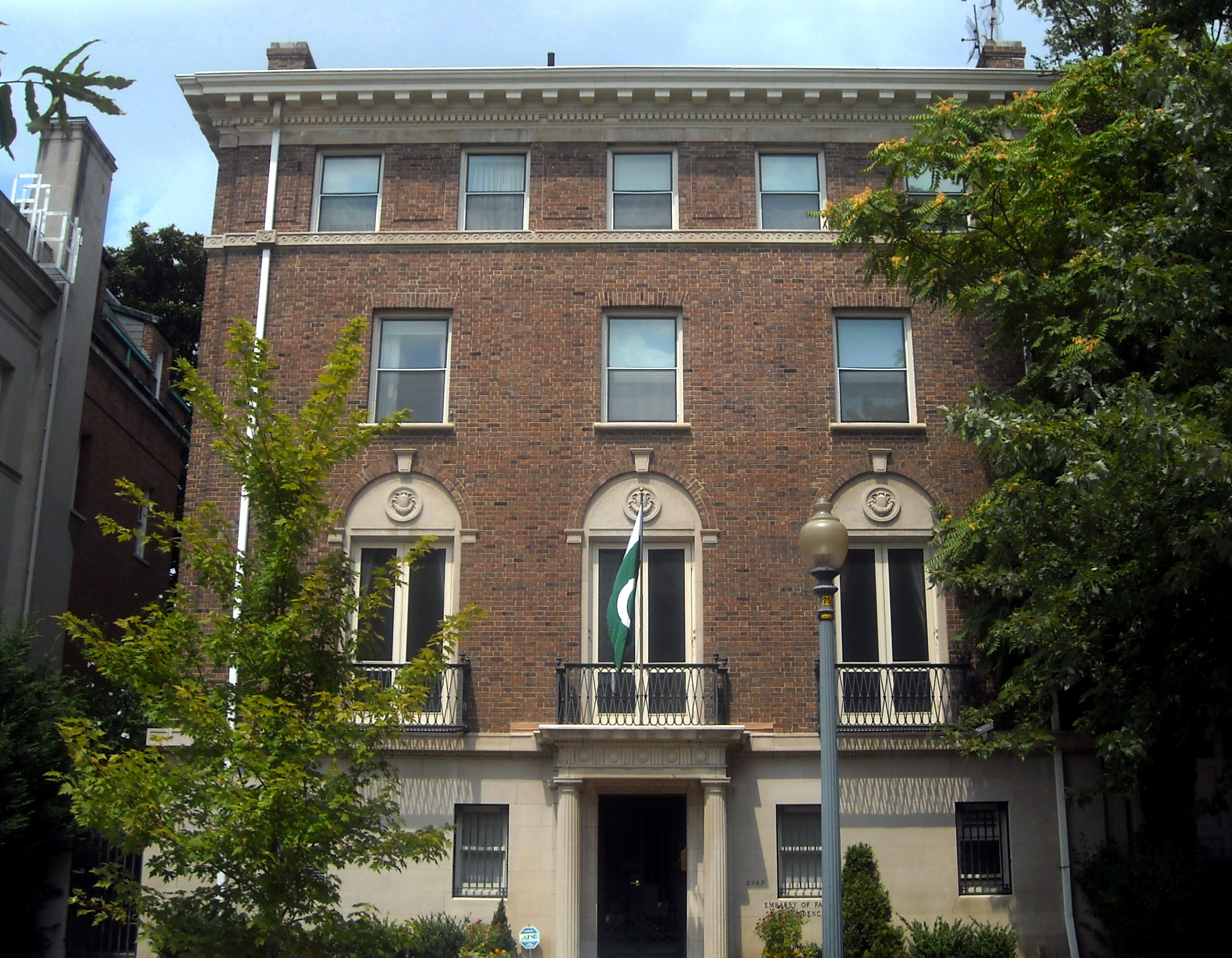 The Pakistani ambassador's residence located at 2343 S Street, NW in the Kalorama neighborhood of Washington, D.C. The current resident is Ambassador Husain Haqqani. The house was built in 1910 and is a contributing property to the Sheridan-Kalorama Historic District. Its 2009 property value is $4,471,280. Previous occupants of the home include James B. Aleshire (Quartermaster General), Van Santvoord Merle-Smith (Third Assistant Secretary of State), Leland Harrison (U.S. Assistant Secretary of State; Chief of the U.S. Tariff Commission; diplomat), and 23 Pakistani ambassadors.